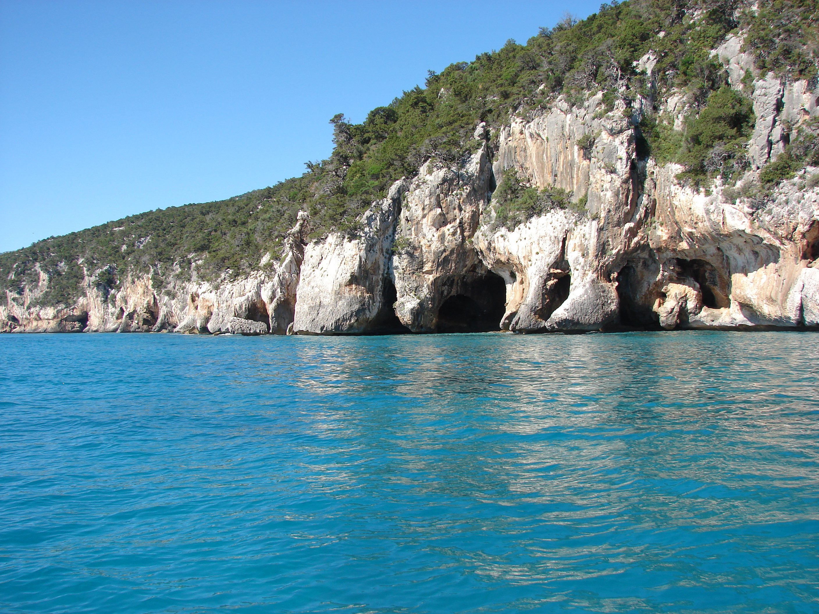 Bue Marino grottos - sardinia